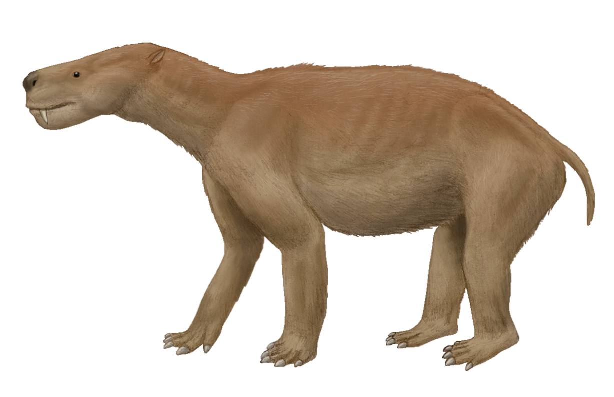 Life restoration of Titanoides primaevus. Based on skeletal restoration found here (figure 2).